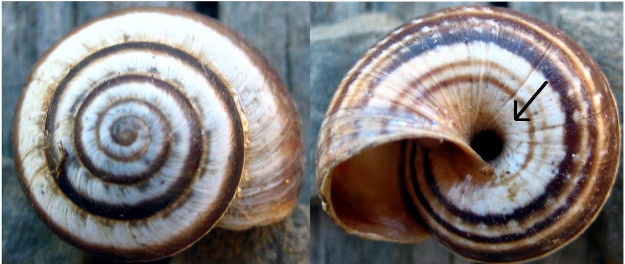 Cernuella virgata, Terrassa, Barcelona, Spain; see the exposed ombilicus